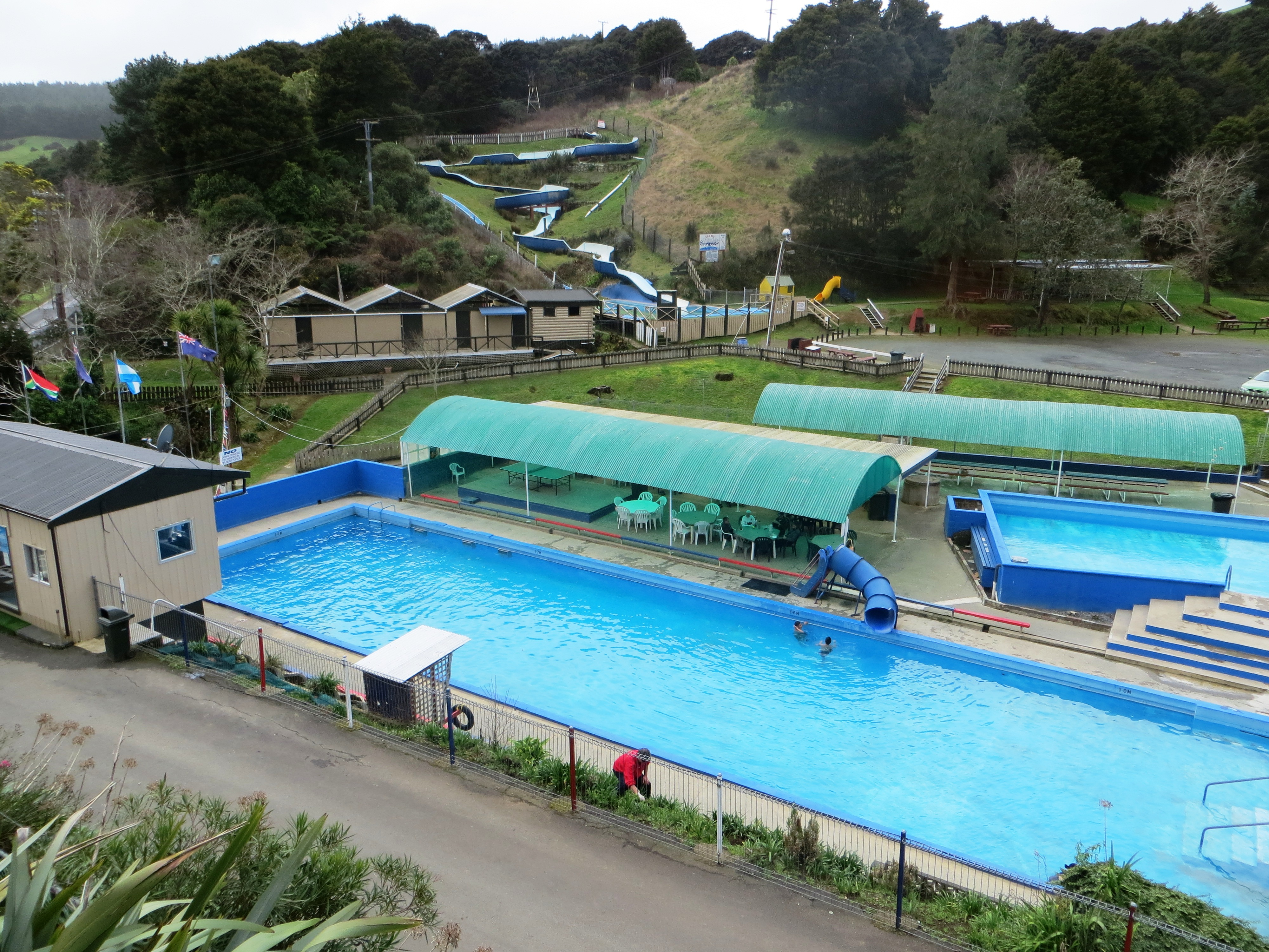 view from hotel